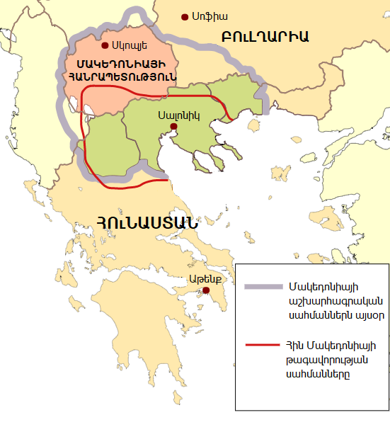 Macedonia_overview